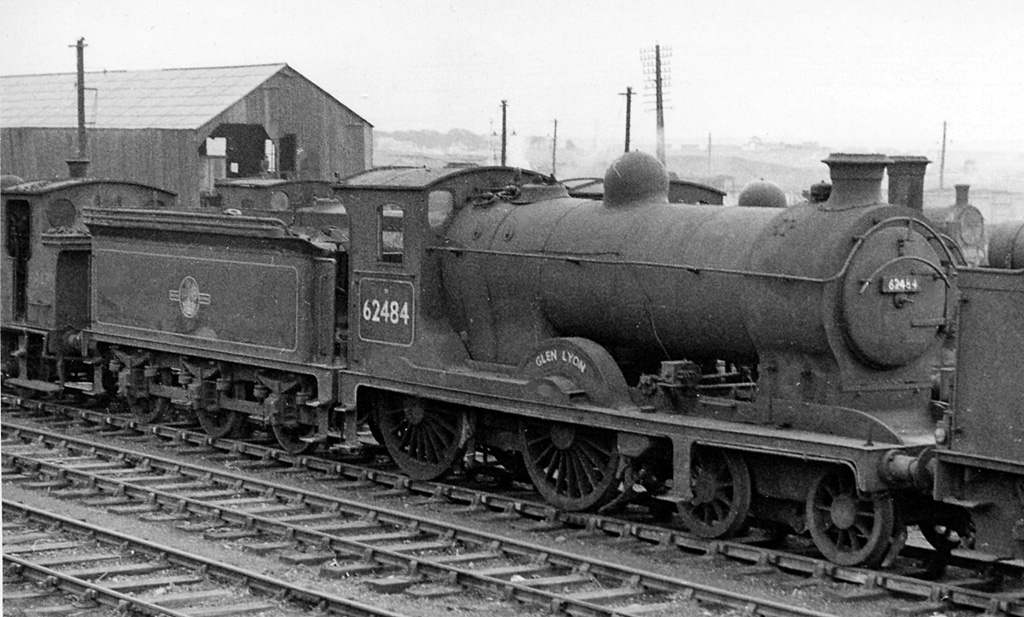 A North British 'Glen' 4-4-0 at Bathgate Locomotive Depot. View northward, just east of Bathgate Upper station, which was then on the ex-NB Edinburgh - Bathgate - Glasgow secondary line. Passenger services had ceased in 1956, so the Depot was then (1962) only servicing freight locomotives and had become mainly a dump for withdrawn engines: this D34, No. 62484 'Glen Lyon', had been condemned in 11/61, nearly a year before the photograph.